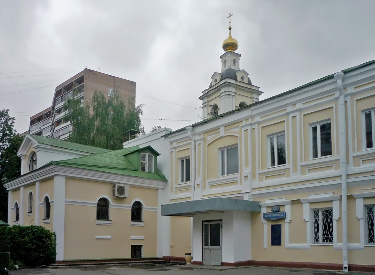 Main building of Saint Tikhon's Orthodox University of Humanities in Moscow, Russia